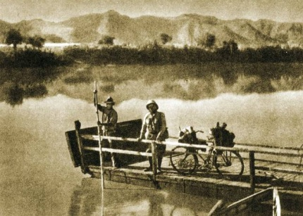 A ferry-boat in Africa. Photo probably taken by Kazimierz Nowak (1897-1937, the author is on the photo, taken probably by a self-timer) during his trip through Africa - a Polish traveller, correspondent and photographer. Probably the first man in the world who crossed Africa alone from the North to the South and from the South to the North (from 1931 to 1936; on foot, by bicycle and canoe).